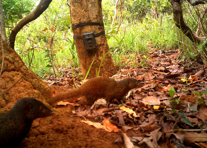 Photo of Dologale Dybowskii taken in the wild, within the Chinko Project Area. Taken May 16, 2012 at 8:33:24.